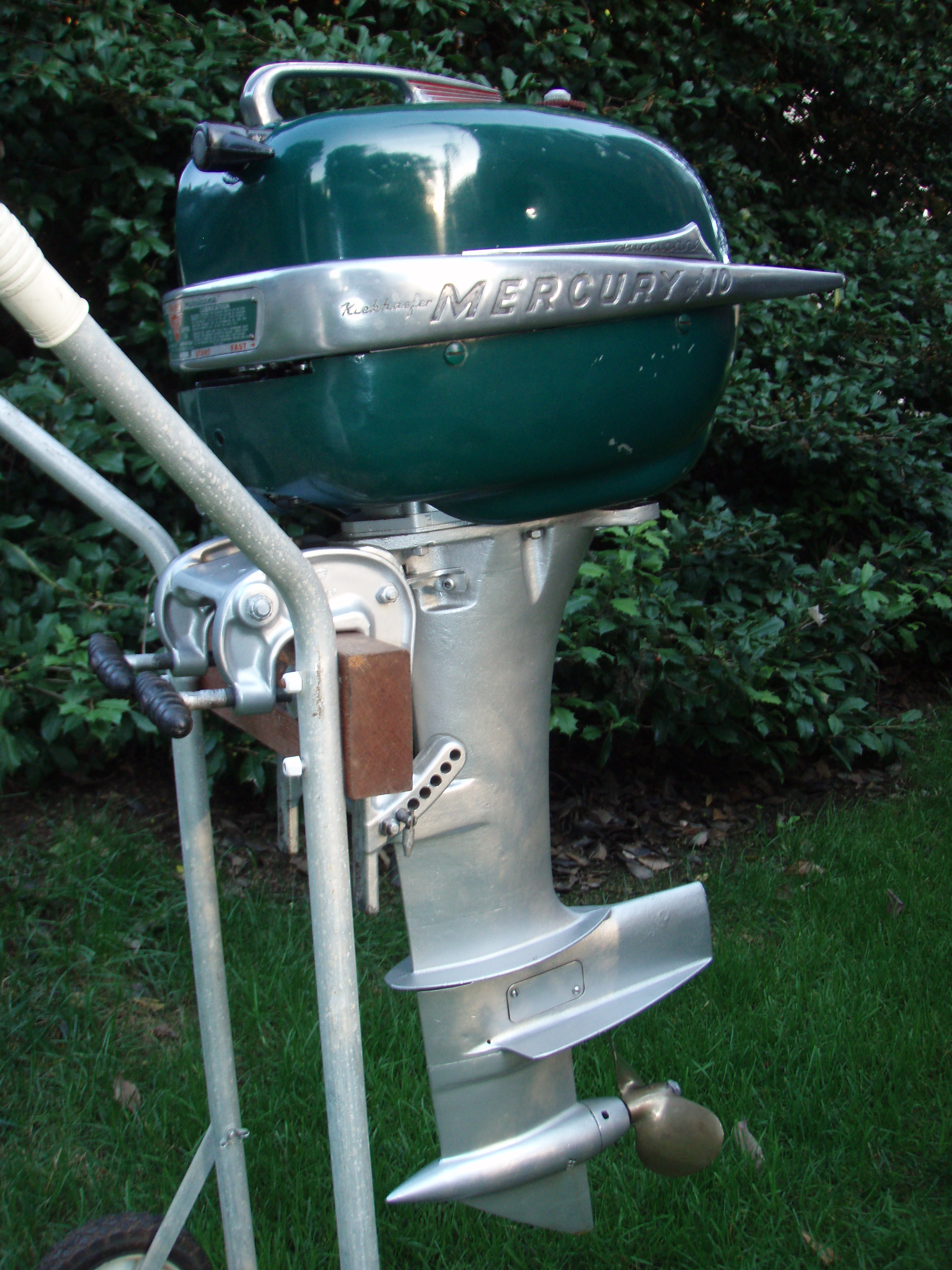 Picture of a 1951 racing outboard motor built by Kiekhaefer Mercury Marine; Model: KG-7Q Super 10 Hurricane.